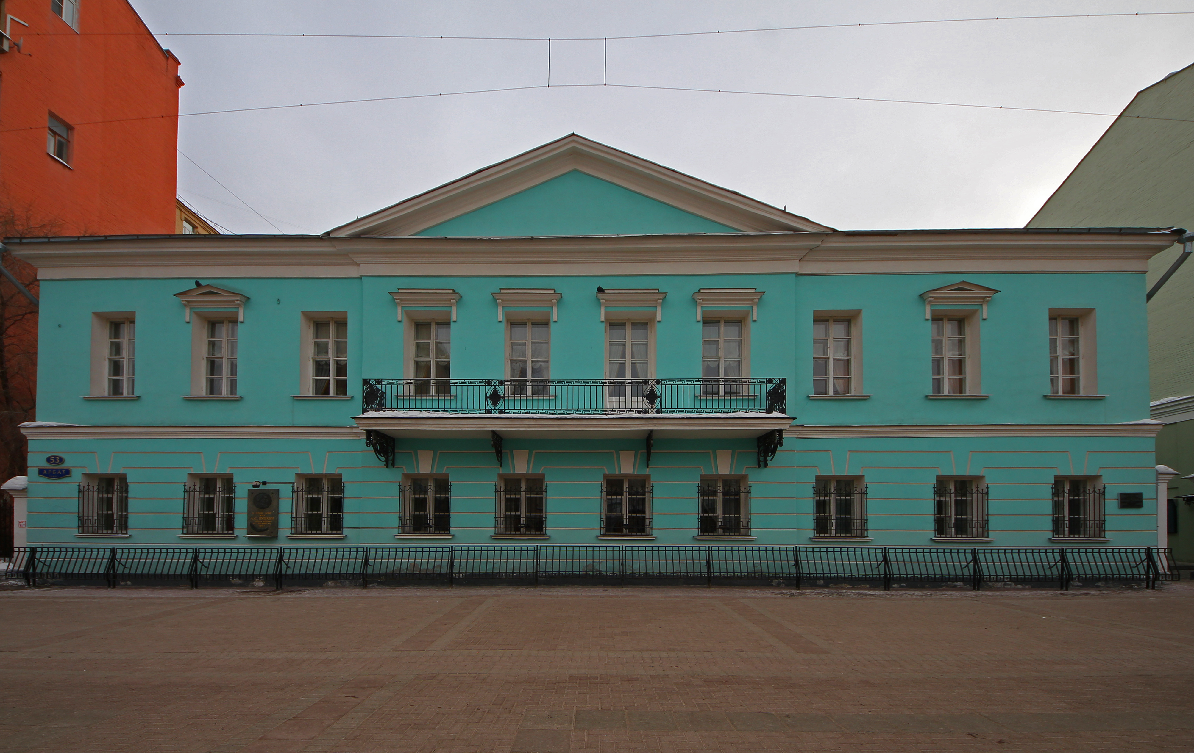 Former residence of A.S.Pushkin (now museum) on Arbat Street in Moscow.